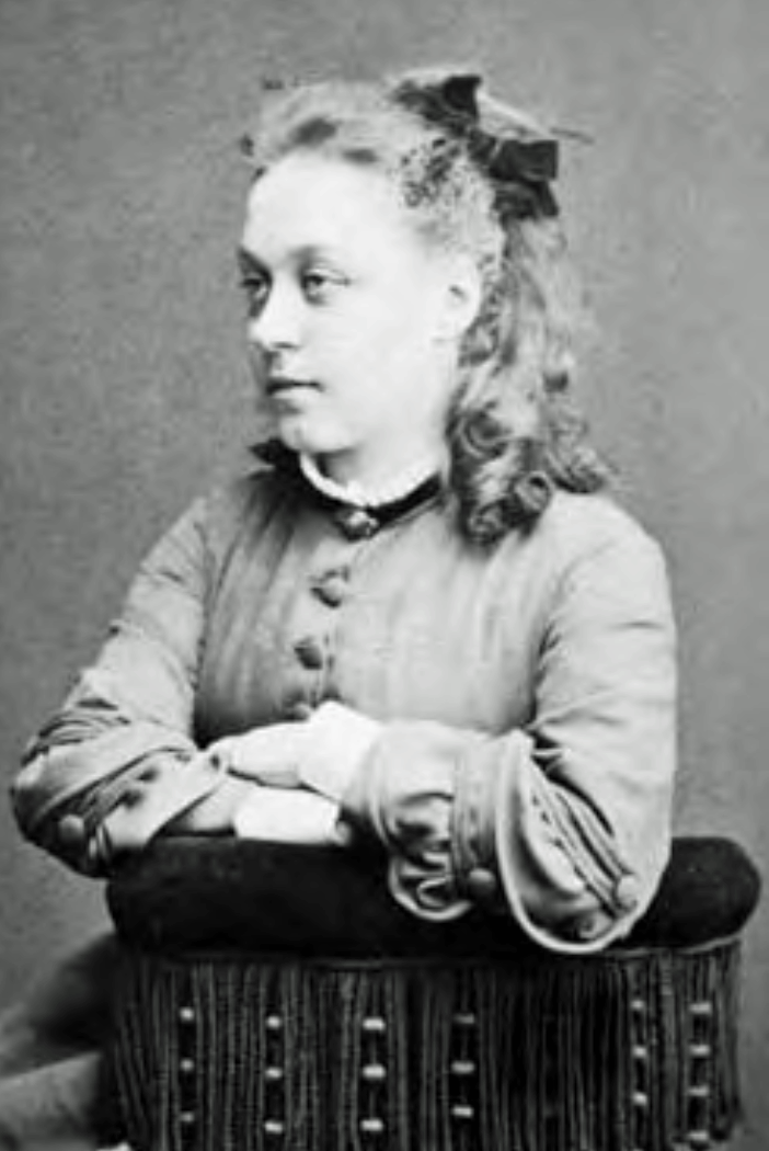 Finnish women's rights activist